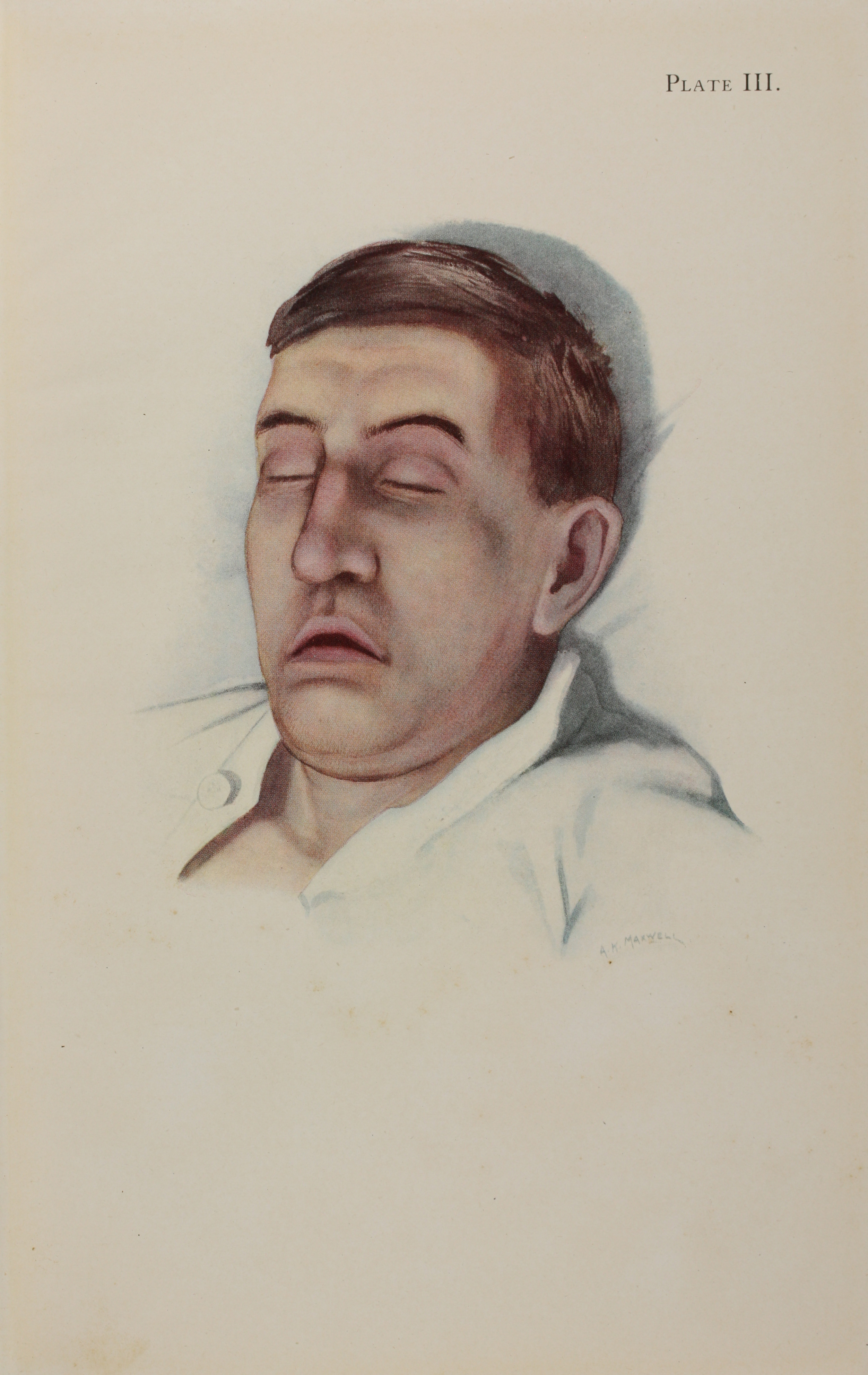 Plate III from An Atlas of Gas Poisoning by the American Red Cross and Medical Research Committee (American Red Cross, 1918). Plate title: "Pallid type of asphyxia from phosgene poisoning, with circulatory failure." Text begins: "The cyanotic hue of the ears and lips, despite the general pallor caused by the failure of the circulation, indicate the intense want of oxygen from which the patient is suffering. Respiratory difficulty is shown in the strained effort of the muscles around the nostrils. ..." The American Red Cross published this guide for the American Expeditionary Force in World War I, sometimes called the "chemists’ war." The chromolithograph plates of characteristic injuries were intended to help inexperienced officers identify the type of gas used in attacks.